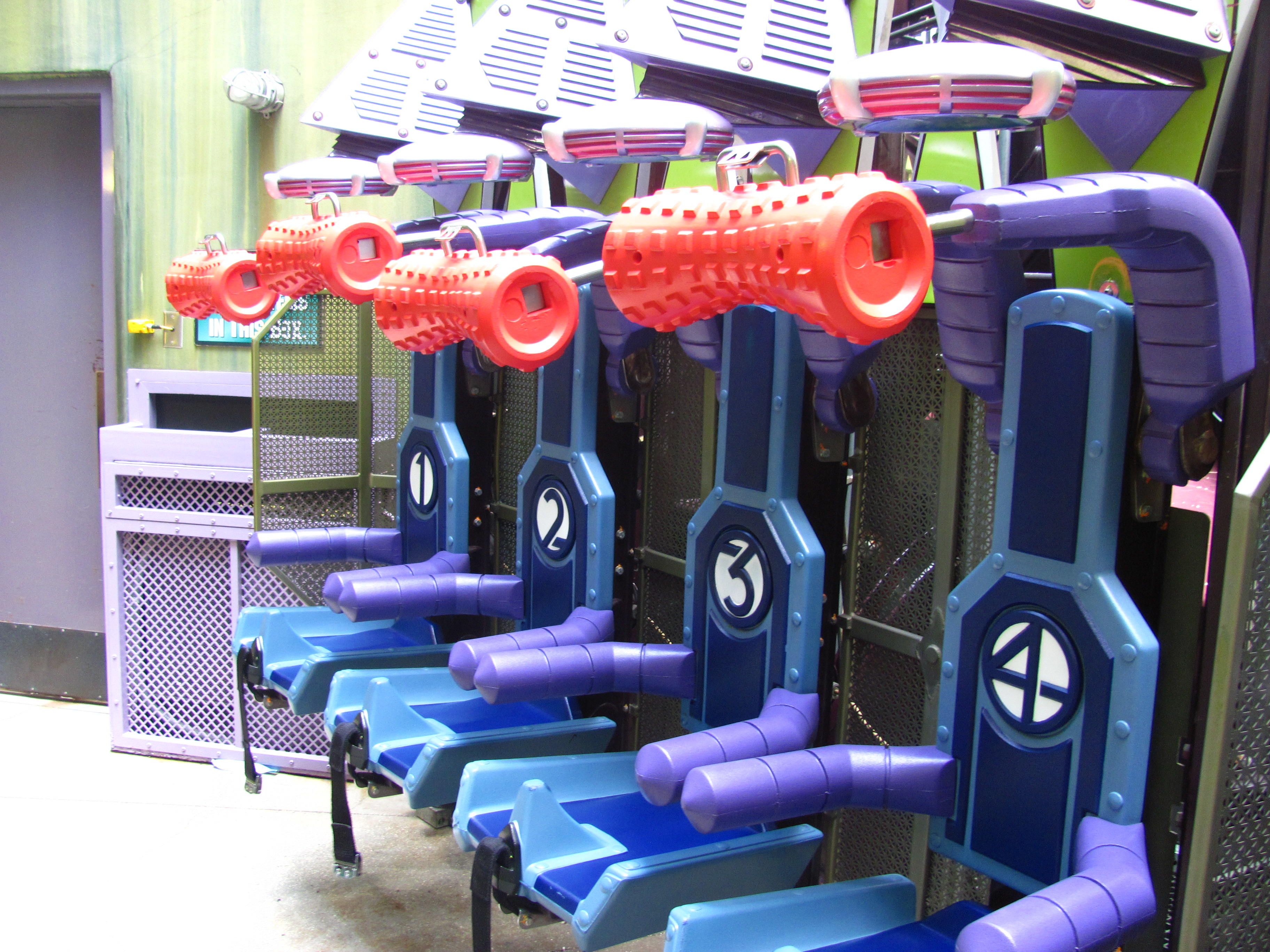 Dr. Doom's Fear Fall